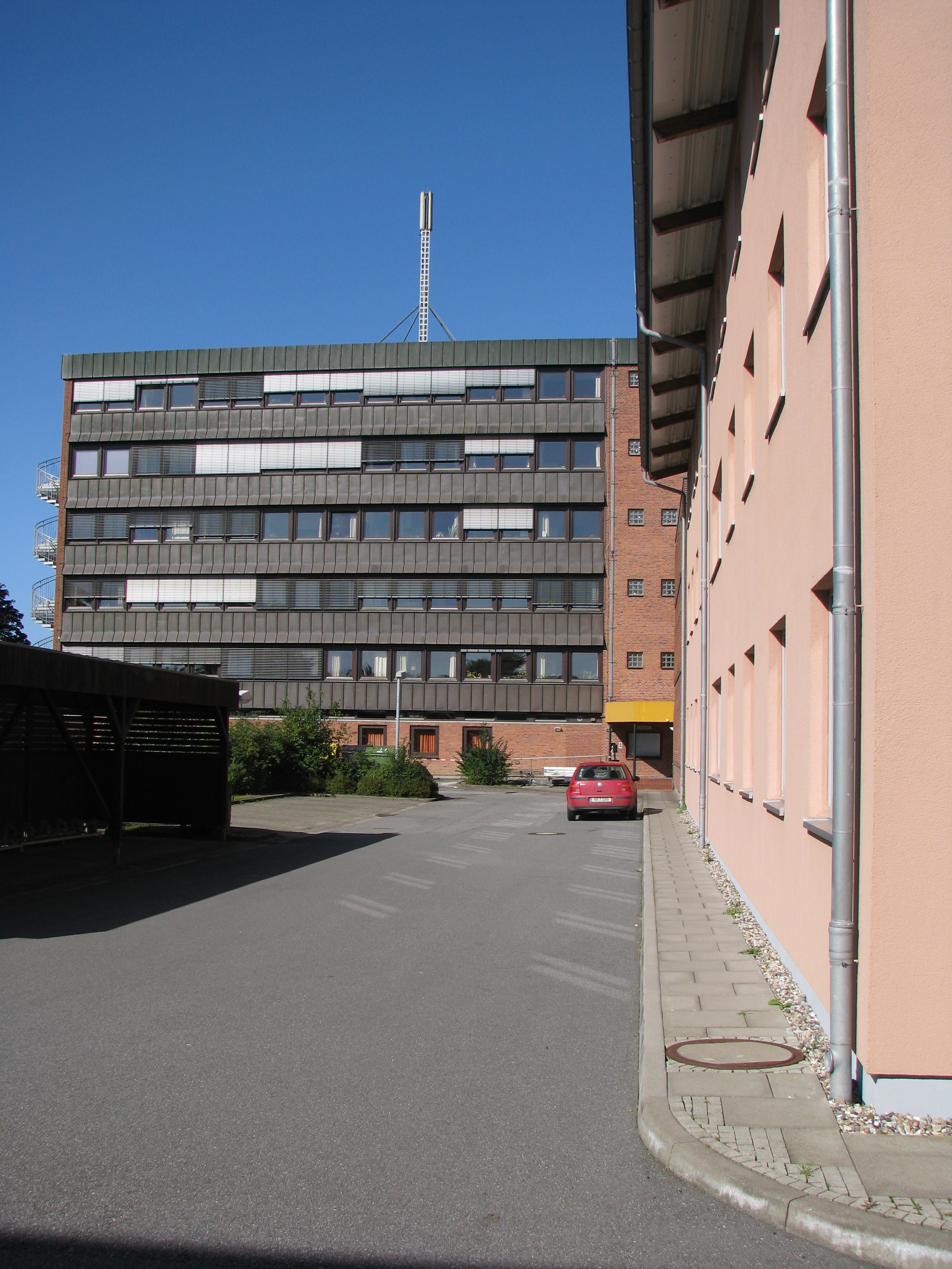 Coast Guard Authority-Headquarter of german state Schleswig-Holstein